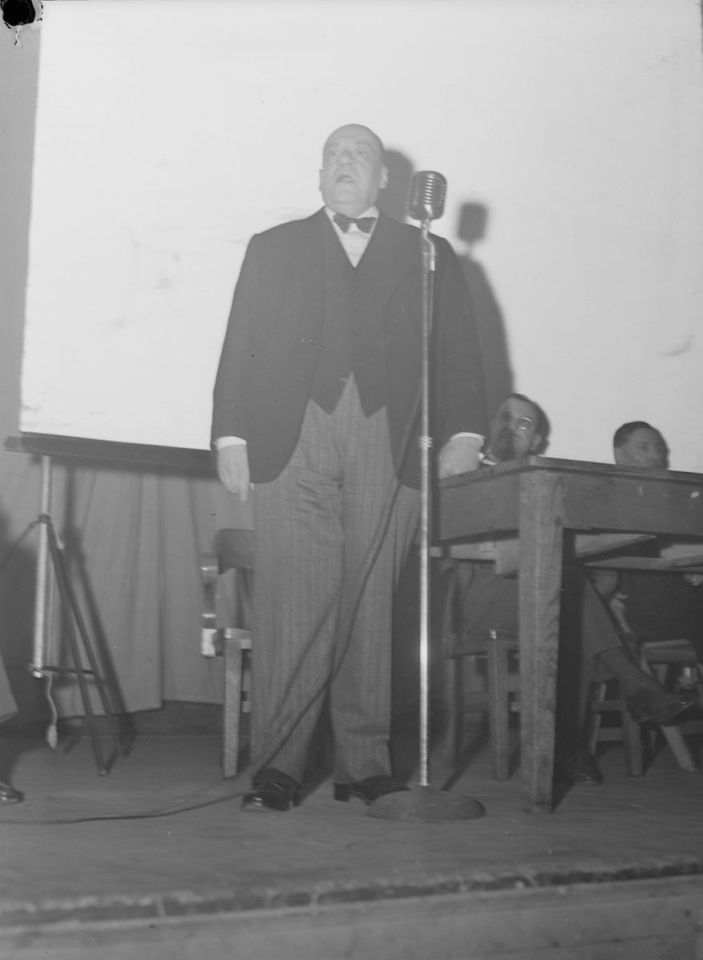 The Mayor of Montreal, Camillien Houde, is one of the speakers at the launch of Fire Prevention campaign organized by the Chamber of Commerce of Montreal.